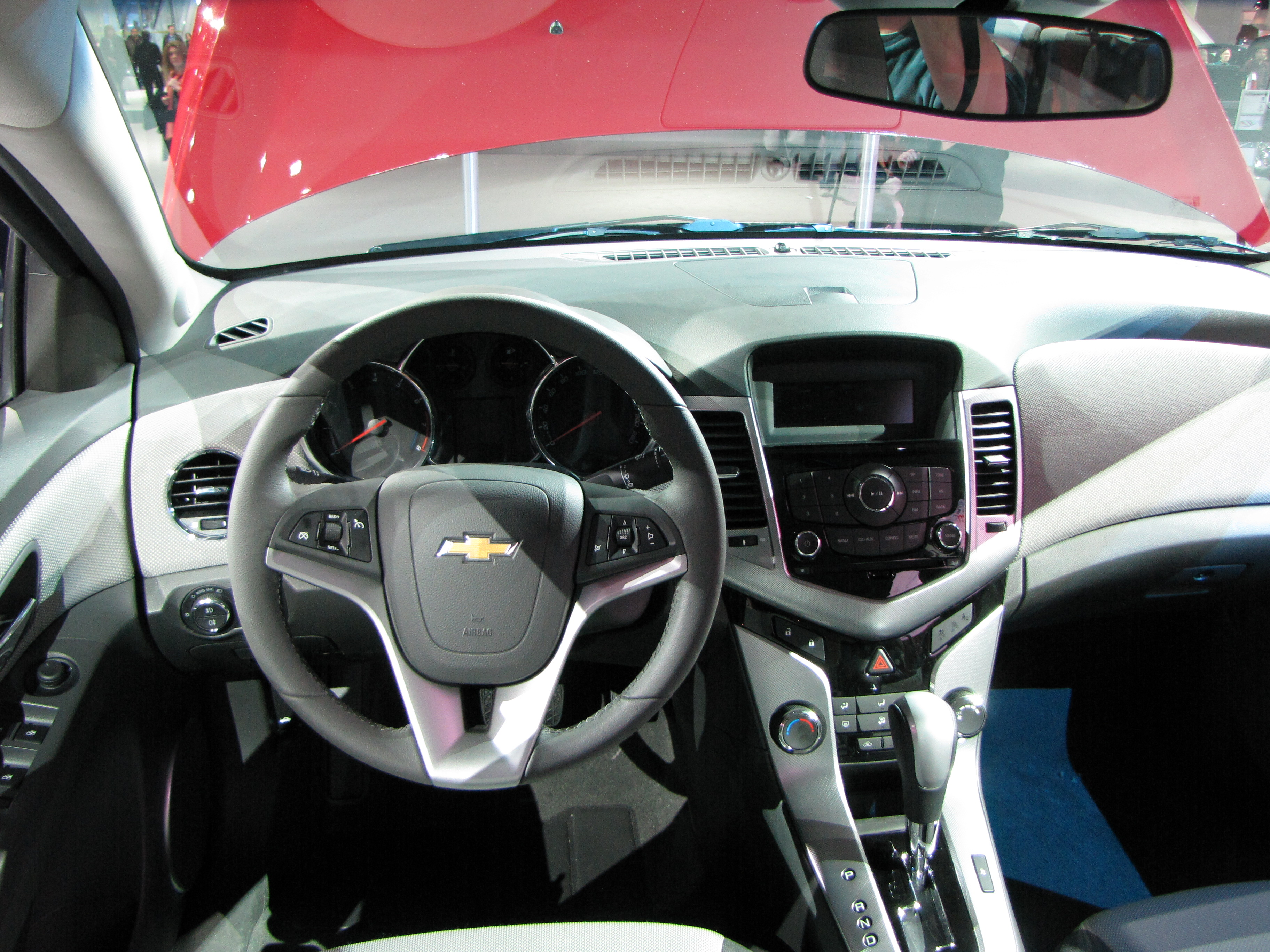 Front seat of the Chevrolet Cruze LT